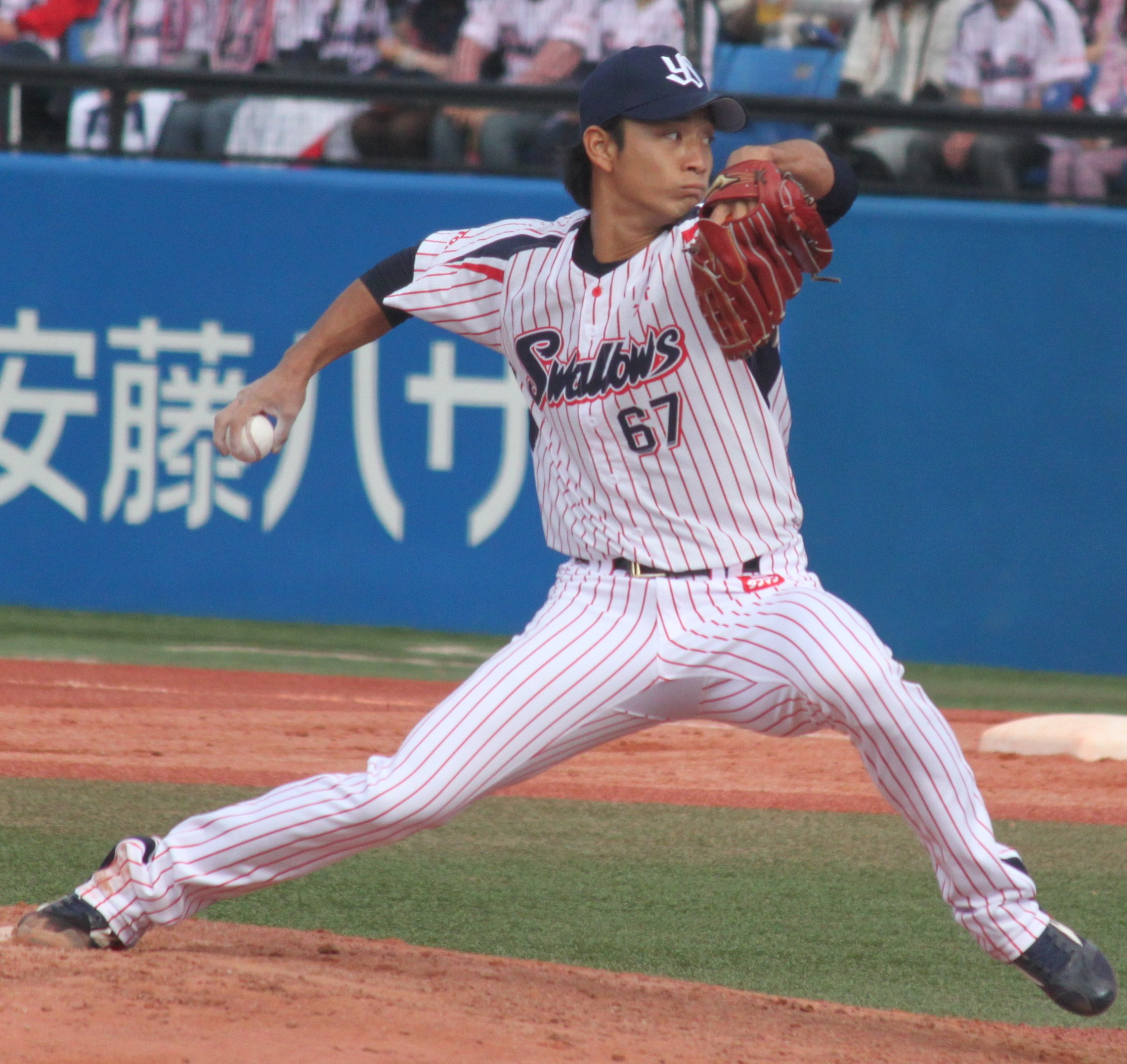 Ryo Hirai, pitcher of the Tokyo Yakult Swallows, at Meiji Jingu Stadium.